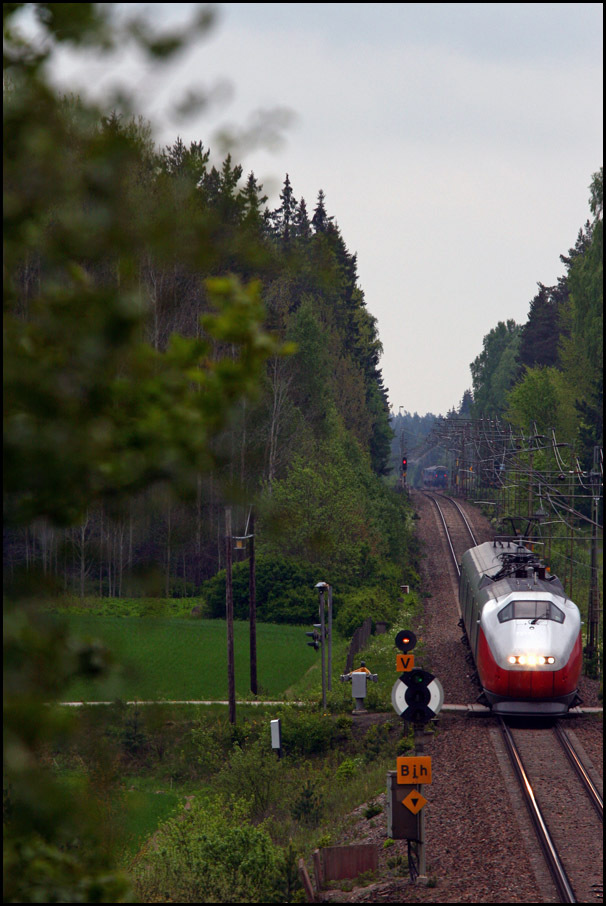 The train NSB BM73. North of Öxnered Sweden.